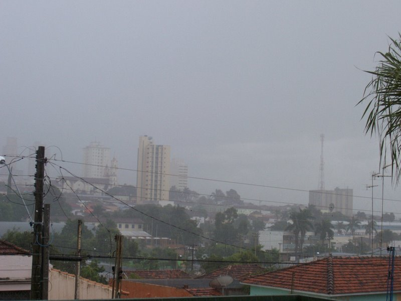 Lins